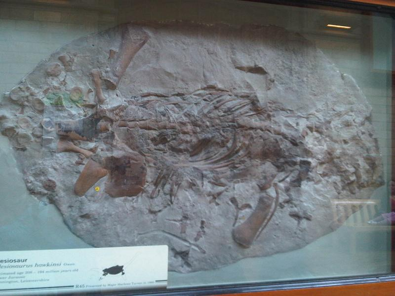 Thalassiodracon (formerly Plesiosaurus) hawkinsi reconstruction at the Natural History Museum in London.